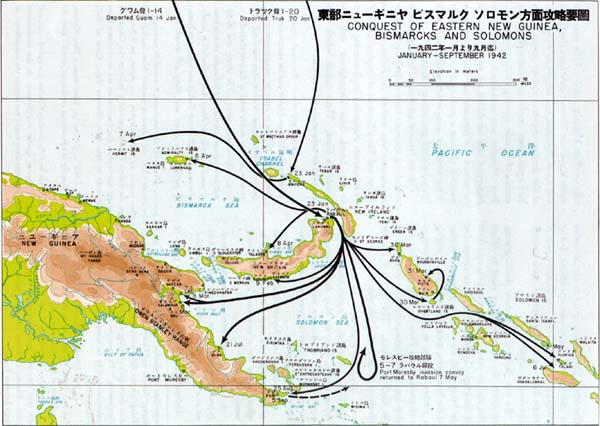 Japanese Conquest of Eastern New Guinea, Bismarcks, and Solomons, 1942